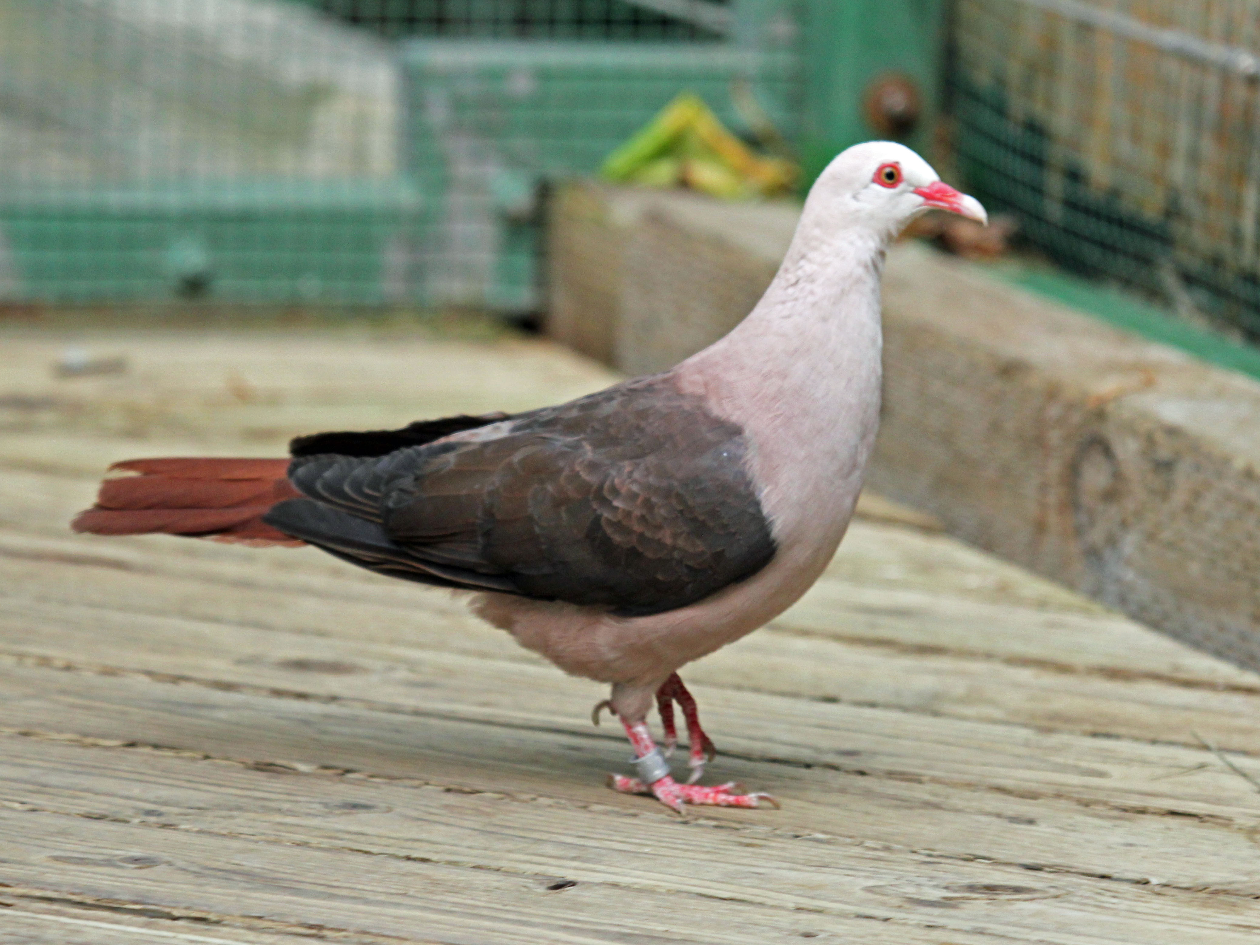 Pink Pigeon - San Diego Zoo. There is much debate about the classification of the Pink Pigeon. It is said to be Columba mayeri, Streptopelia mayeri, Nesoenas mayeri and more!